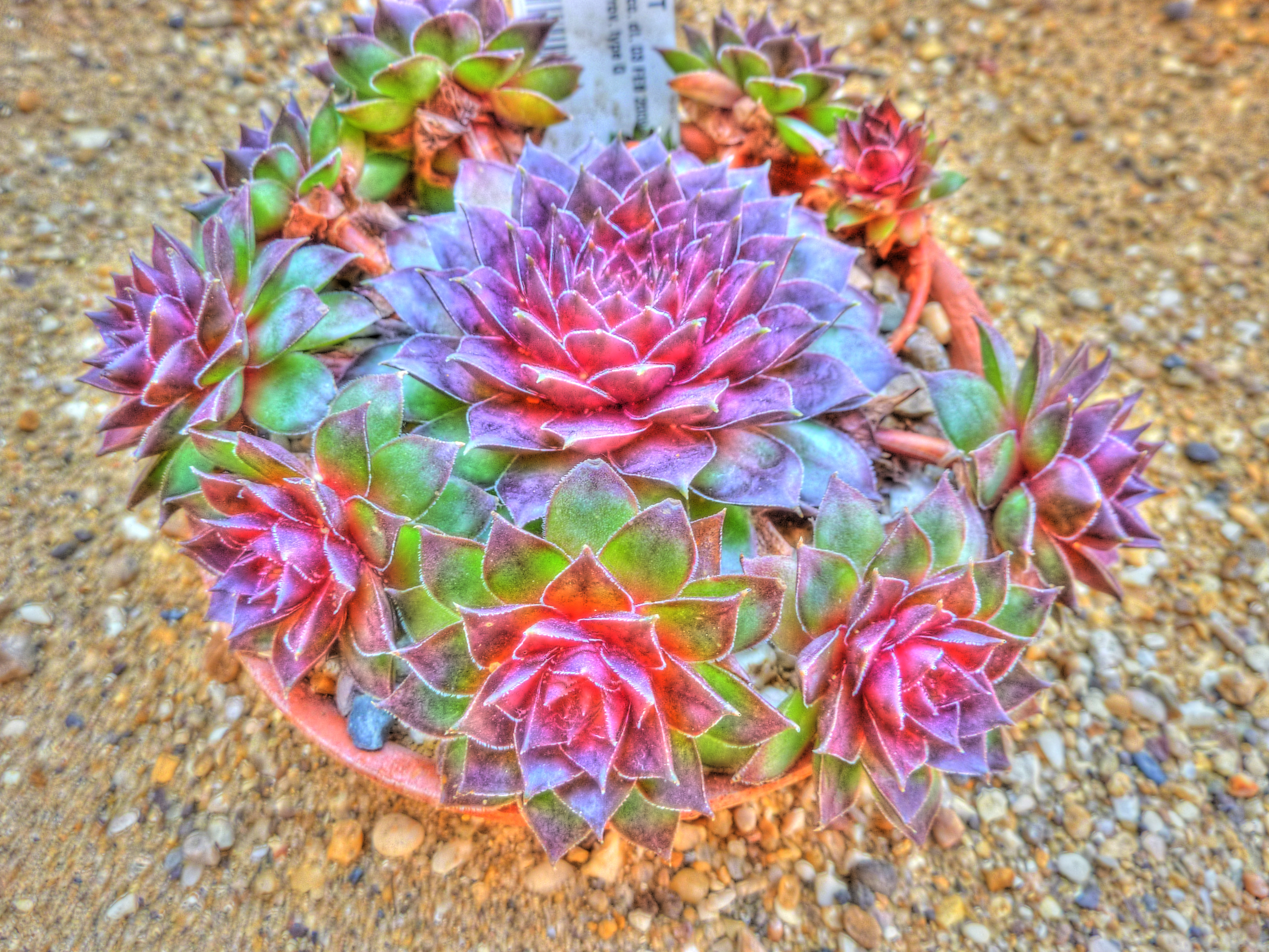 Taken in the Cambridge University Botanic Garden.